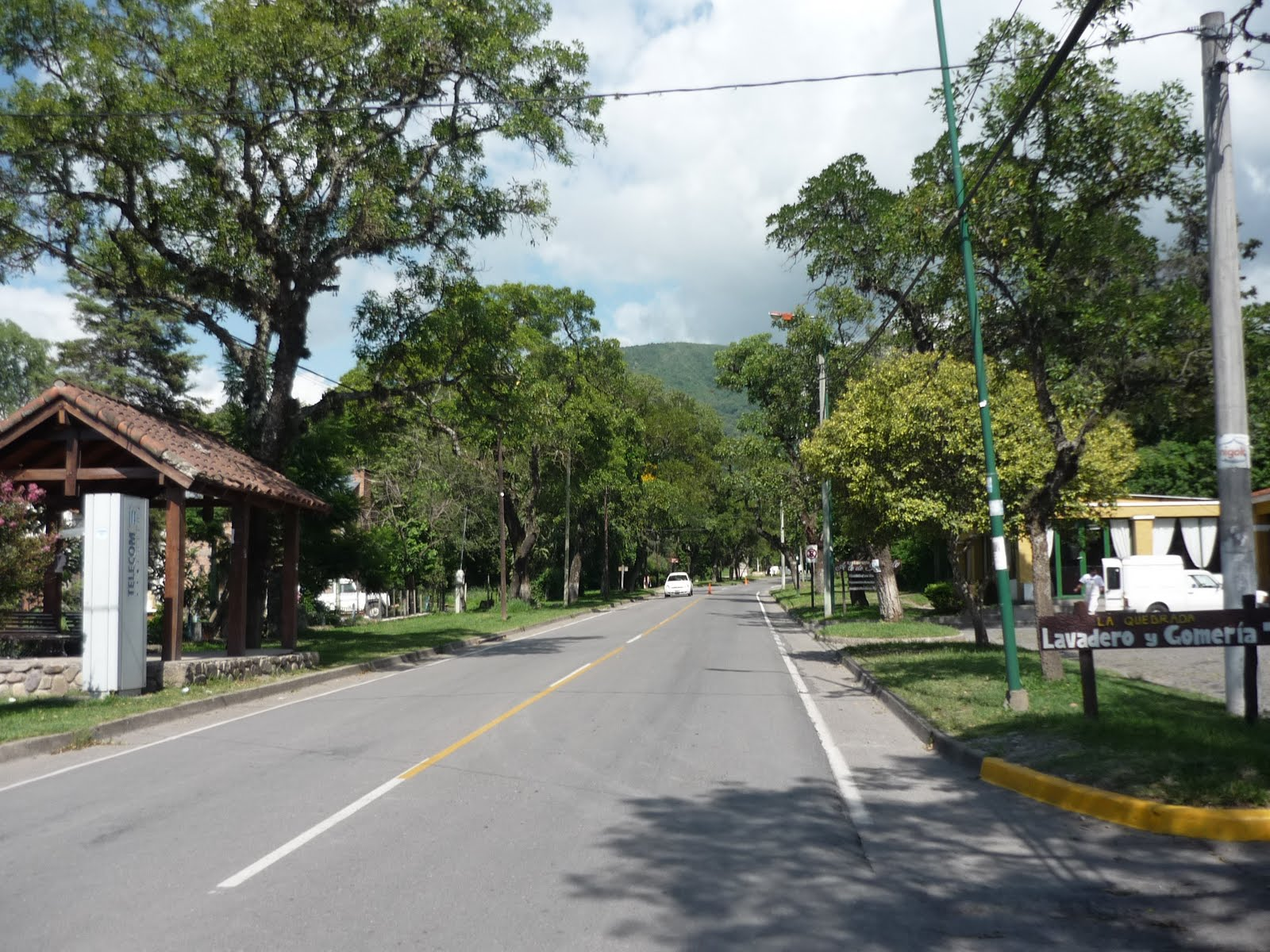 Villa San Lorenzo en la Provincia de Salta